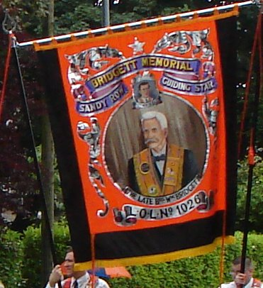 Copyright Douglas Jones. Licensed with permission.